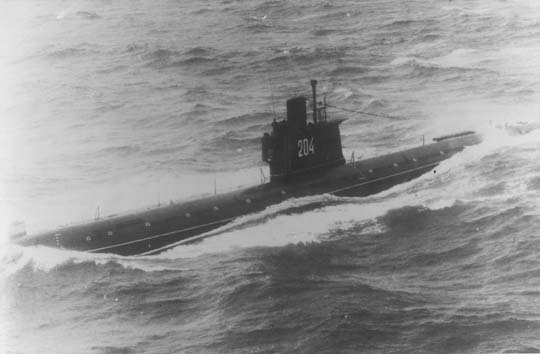 Photograph of a Romeo class submarine. copied from a webpage of the Russian Warrior website. The caption says that the photograph was taken by the US navy. I therefore assume that it is in the public domain.